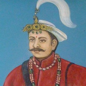 Bal Narsingh kunwar, the father of Jung Bahadur Rana, A courtier in the palace of Rana Bahadur Shah.